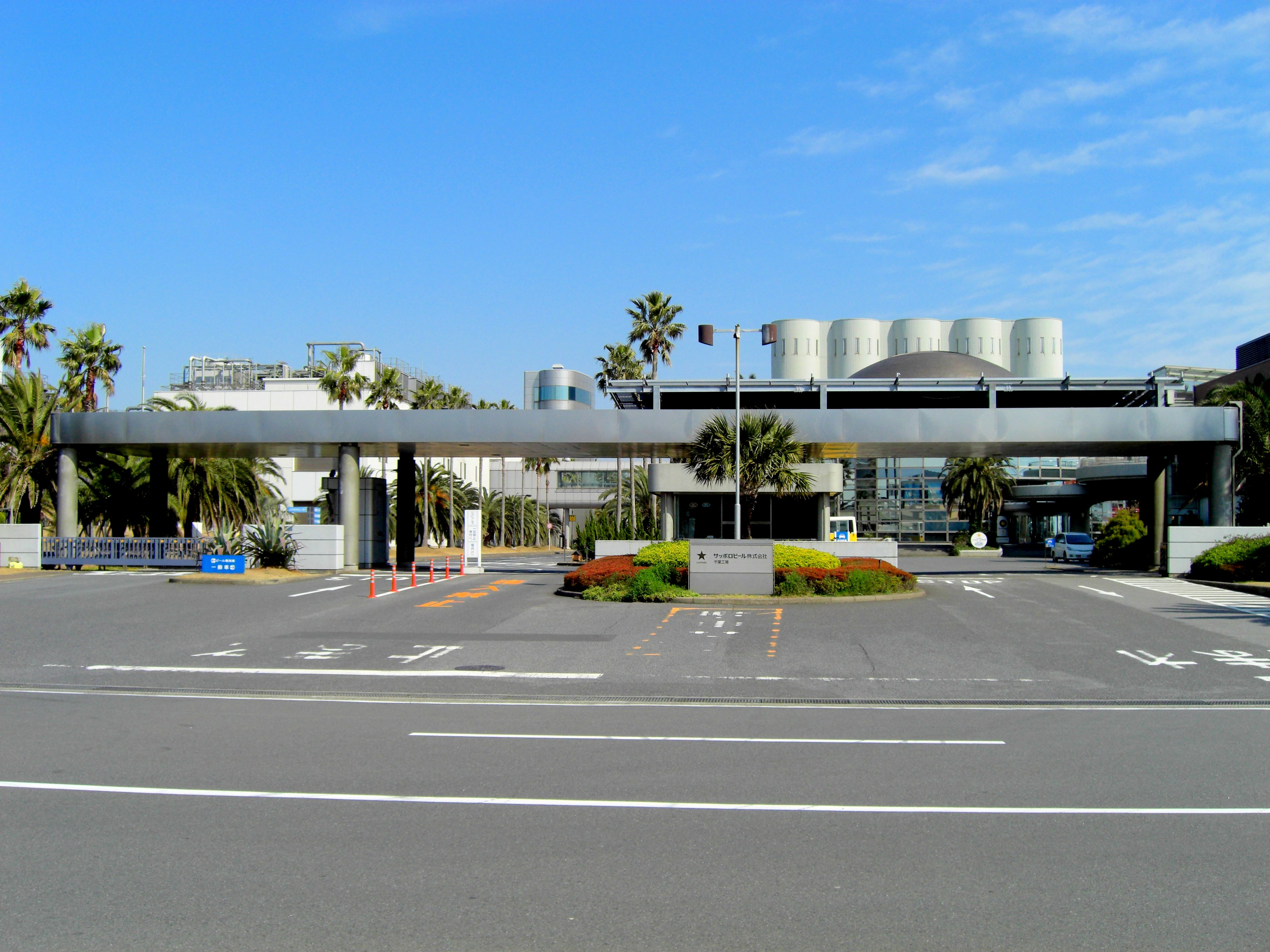 Sapporo Breweries Chiba Brewery